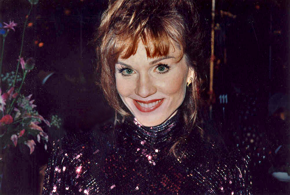 Photo taken at the 43rd Emmy Awards 8/25/91